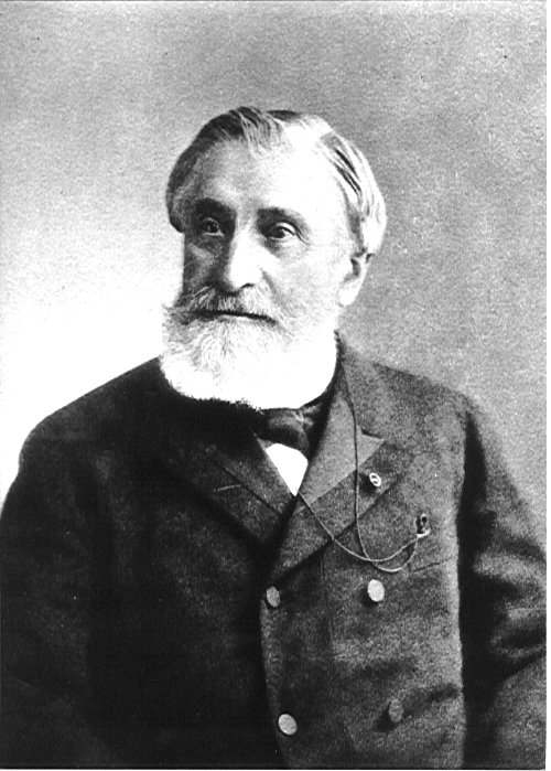 Gustave Moynier (1826–1910), Swiss jurist and philanthropist from Geneva; co-founder (with Gustave Rolin-Jaequemyns) of the International Committee of the Red Cross and the Institut de Droit international